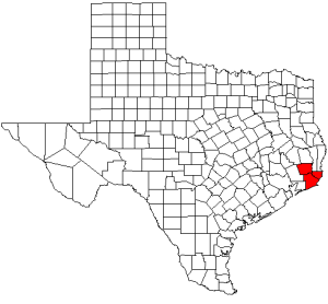 Map of Texas highlighting counties served by the South East Texas Regional Planning Commission; created by User:Acntx.